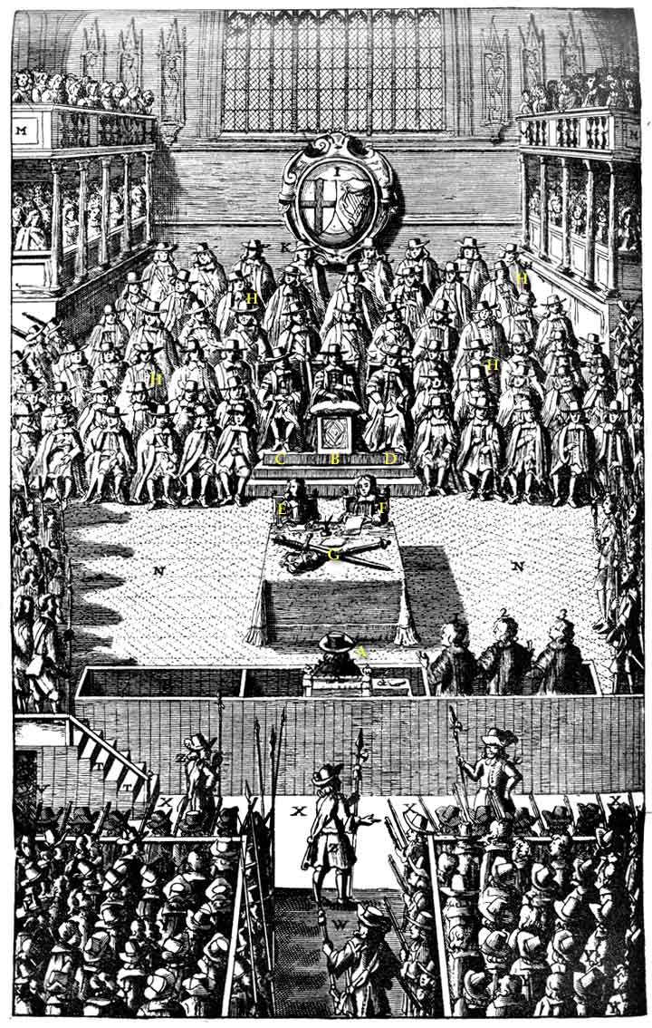 Engraving from "Nalson's Record of the Trial of Charles I" in the British Museum. Plate 2 from A True copy of the journal of the High Court of Justice for the tryal of K. Charles I as it was read in the House of Commons and attested under the hand of Phelps, clerk to that infamous court / taken by J. Nalson Jan. 4, 1683 : with a large introduction. London: Printed by H.C. for Thomas Dring at the Harrow at the corner of Chancery Lane and Fleet Street, 1684.